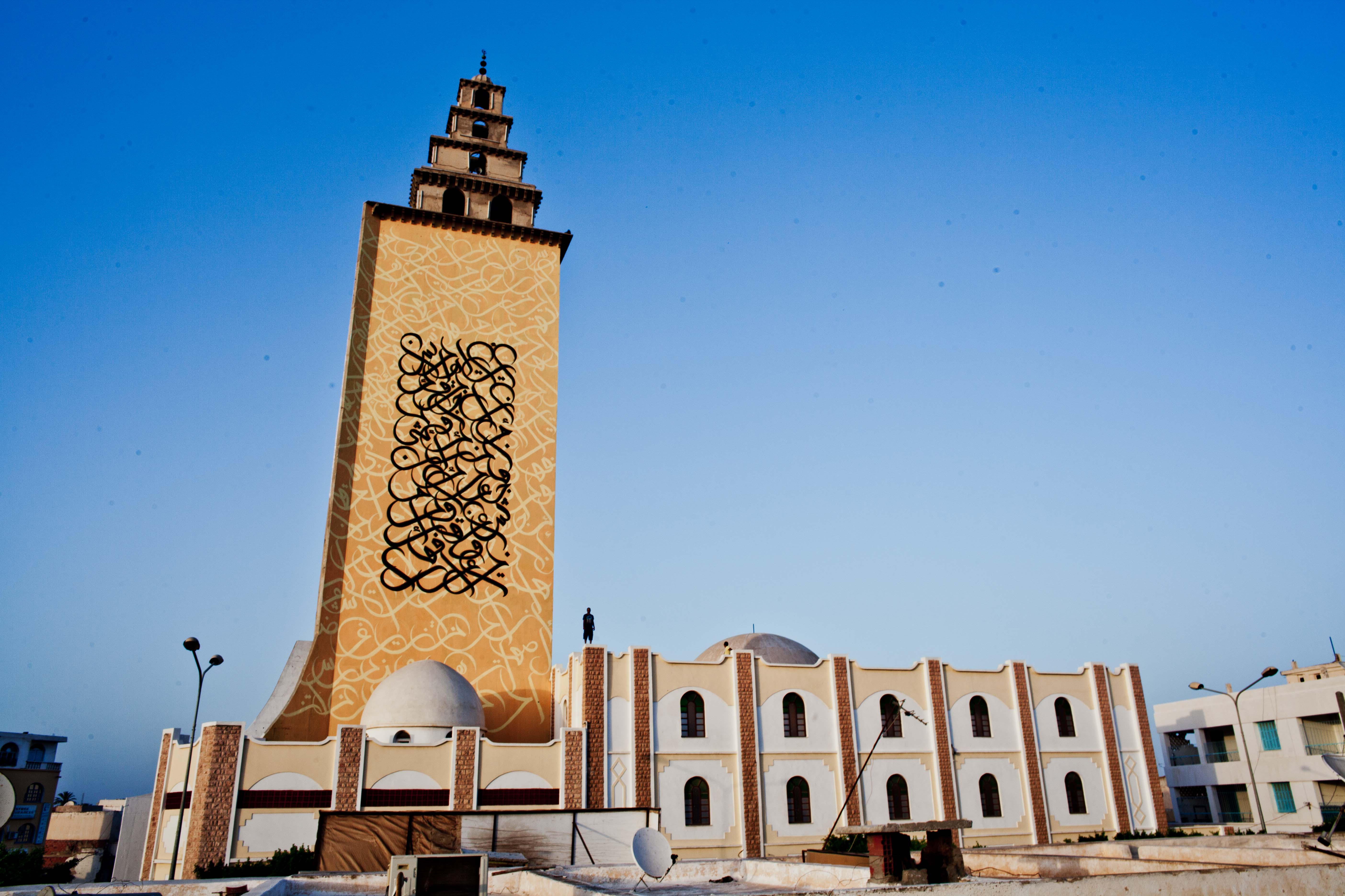 Pictures from Jara Mosque, Gabès, Tunisia